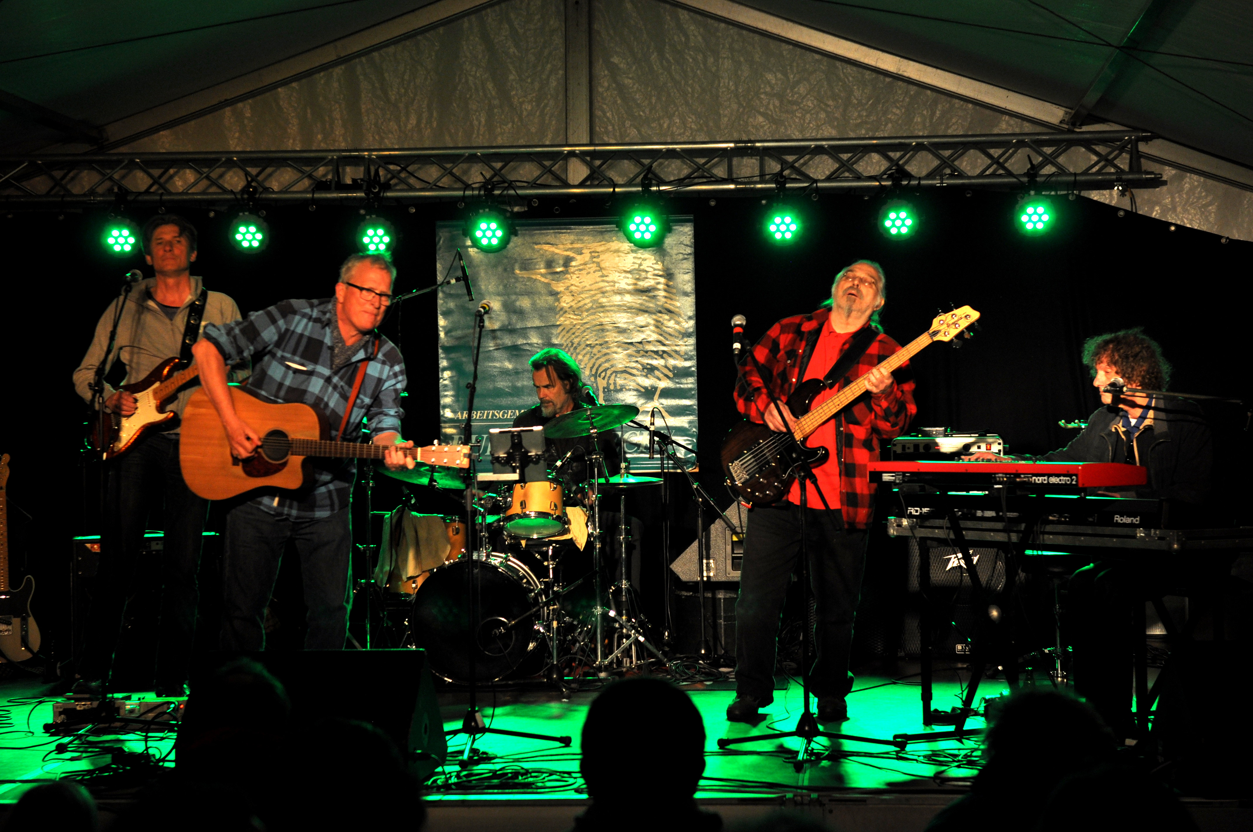 bots (NL) at the 2016 song festival at Waldeck castle, Dorweiler, Rhineland-Palatinate, Germany Festivalsommer This photo was created with the support of donations to Wikimedia Deutschland in the context of the CPB project "Festival Summer".